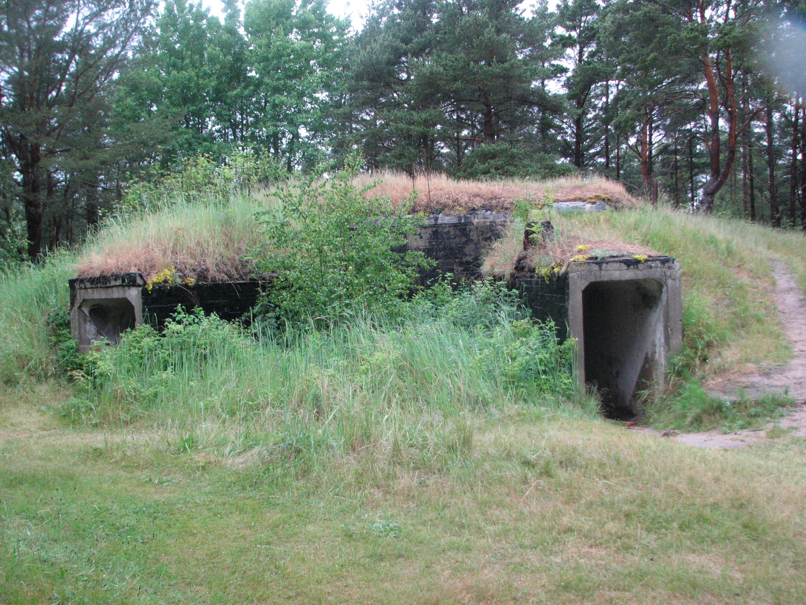 Cannon yard of Tahkuna coastal battery. Tahkuna, Estonia. Year 1939